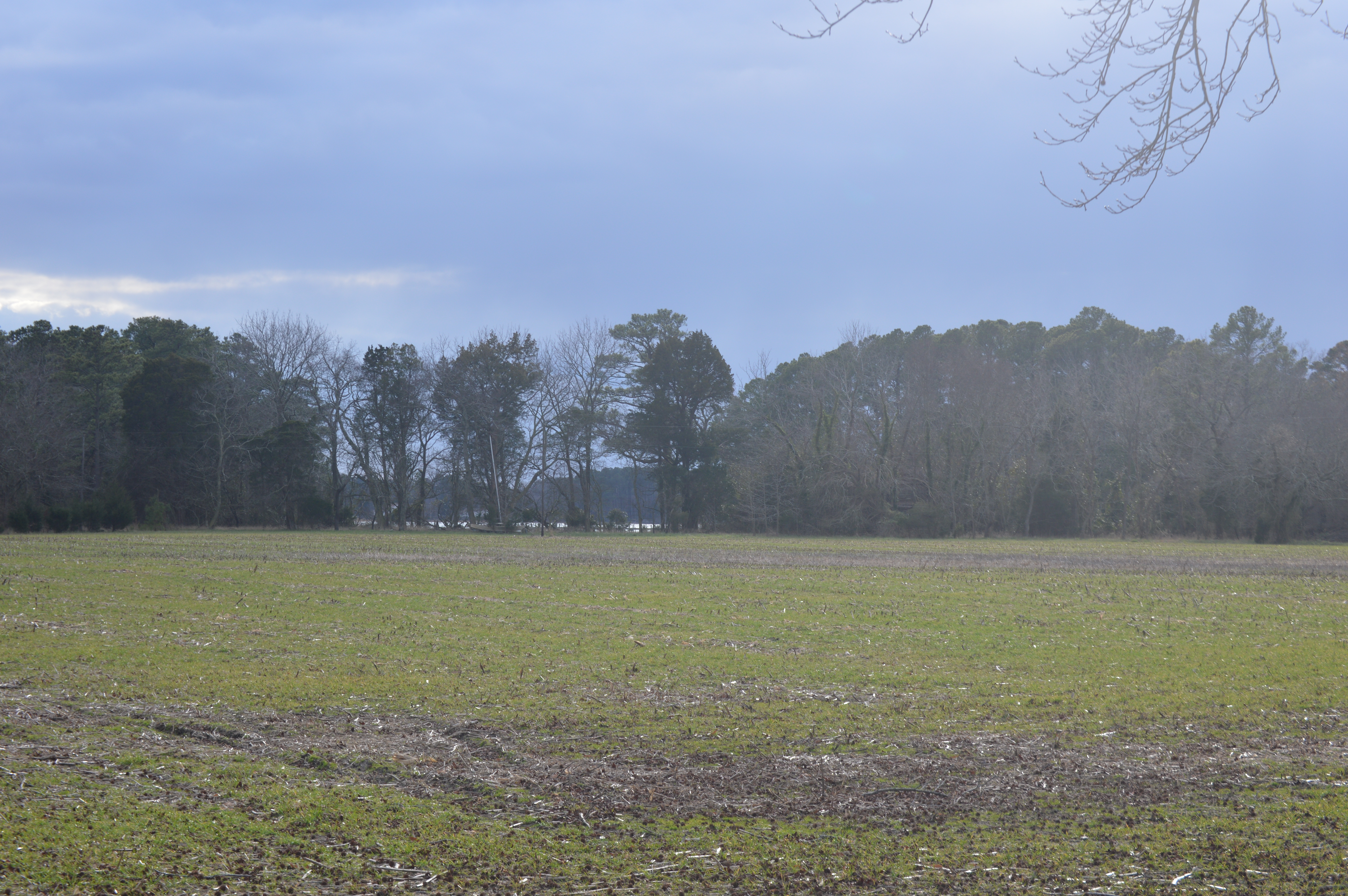 Looking over fields toward the Scarborough Gut, an arm of Occohannock Creek in far southwestern Accomack County, Virginia, United States. Along the gut is the site of Scarborough House, home to Edmund Scarborough, one of early Virginia's first men. Now an archaeological site, the location is listed on the National Register of Historic Places.